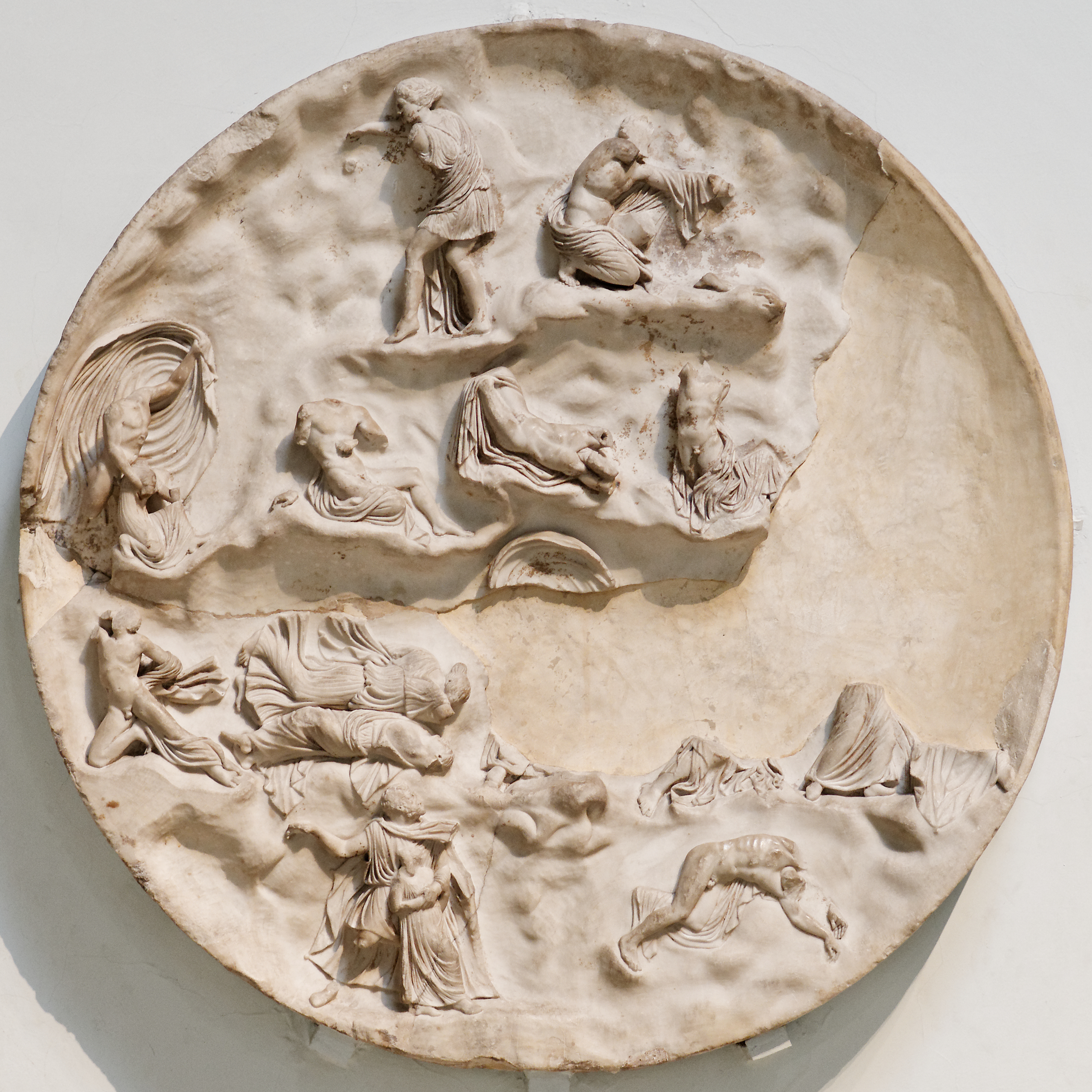 Apollo and Artemis slaying Niobe's children. Roman artwork. May be the representation of a lost frieze by Pheidias, which once decorated the throne of the colossal statue of the temple of Zeus in Olympia.